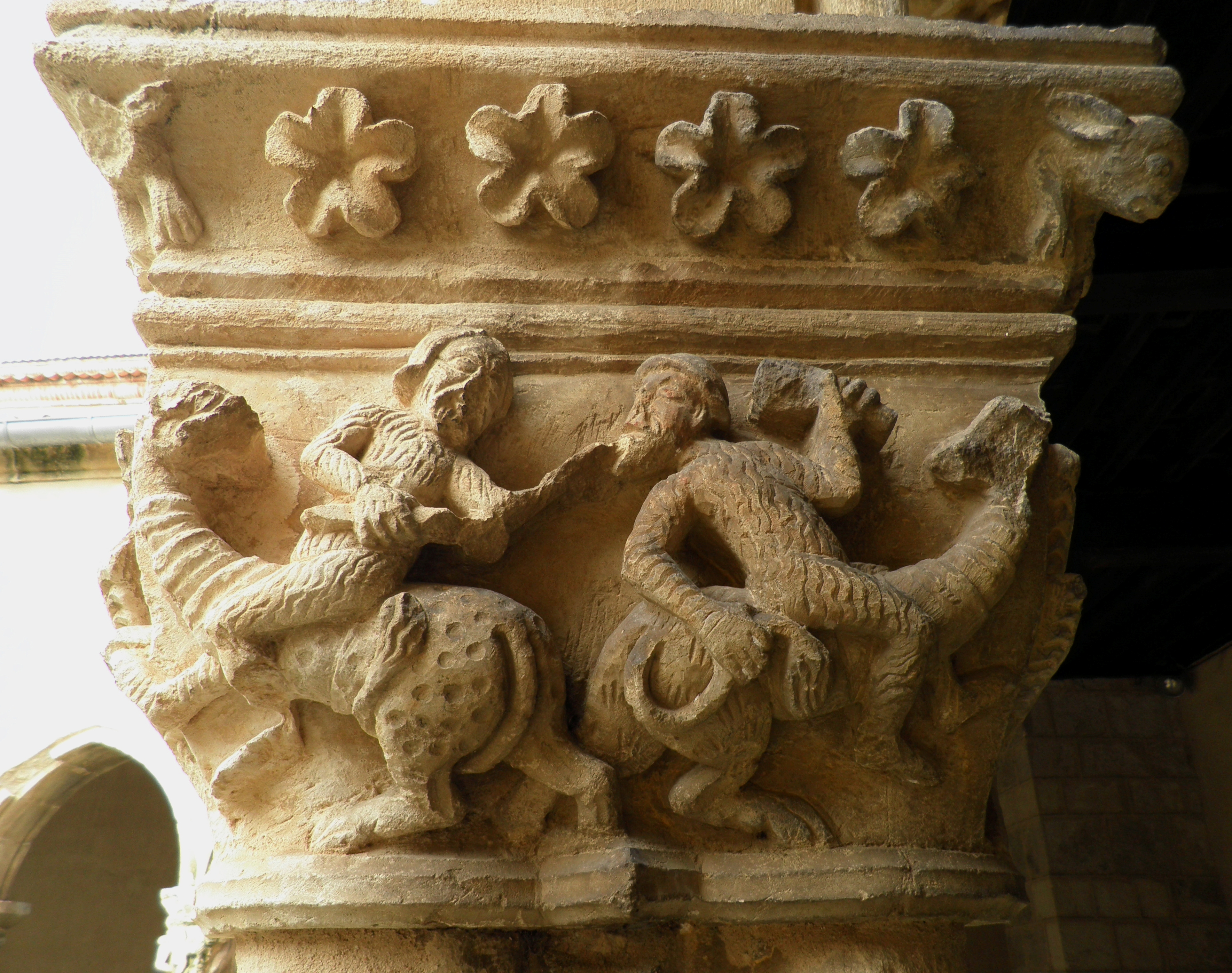 17th capital in easthern corridor of the church of Santa María la Real de Nieva, Segovia province, Spain. Furry savage human beings riding strange animals